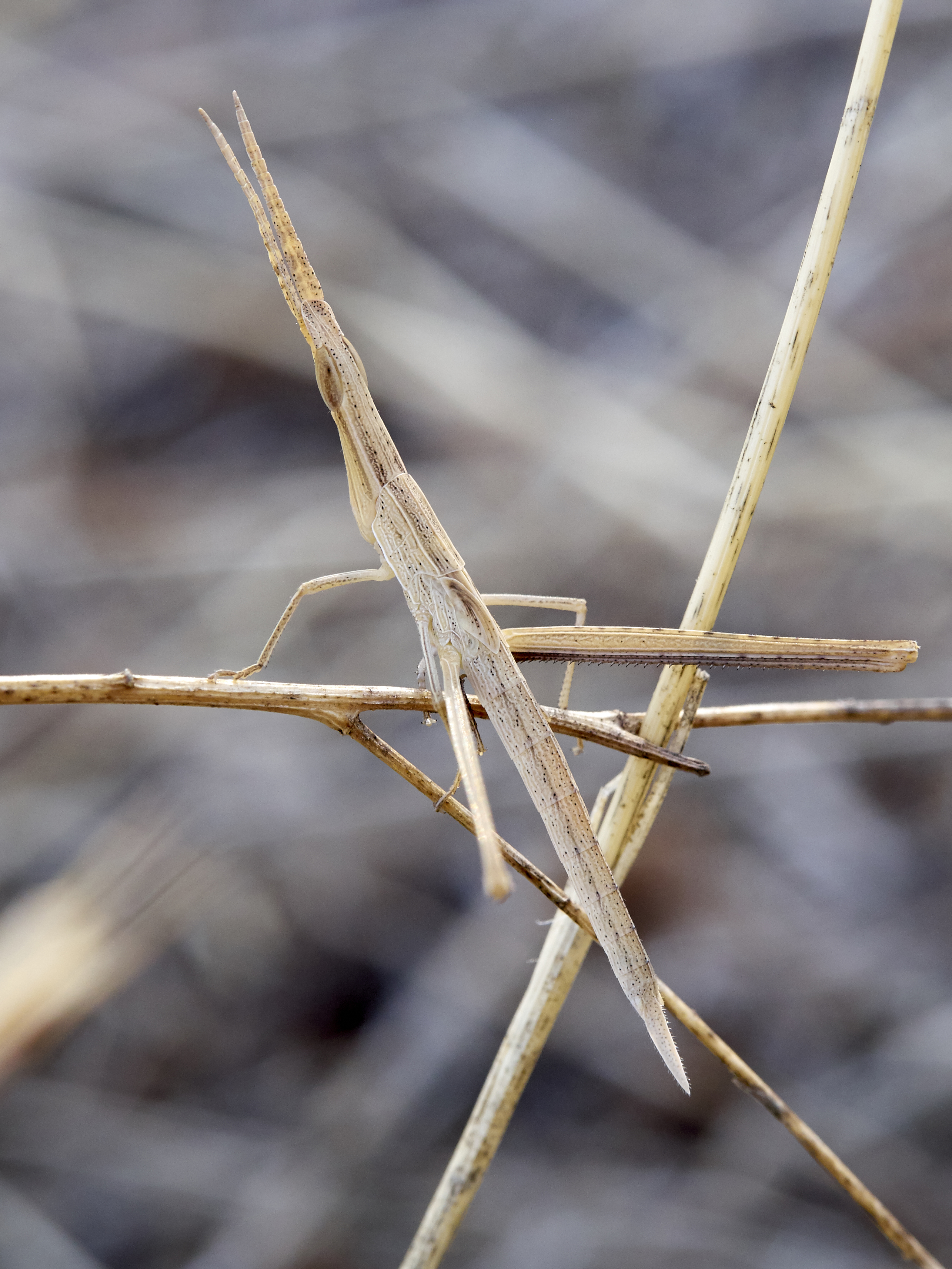 A well camouflaged acrida ungarica, a species of grasshopper (nymph), found near Koroni, Greece